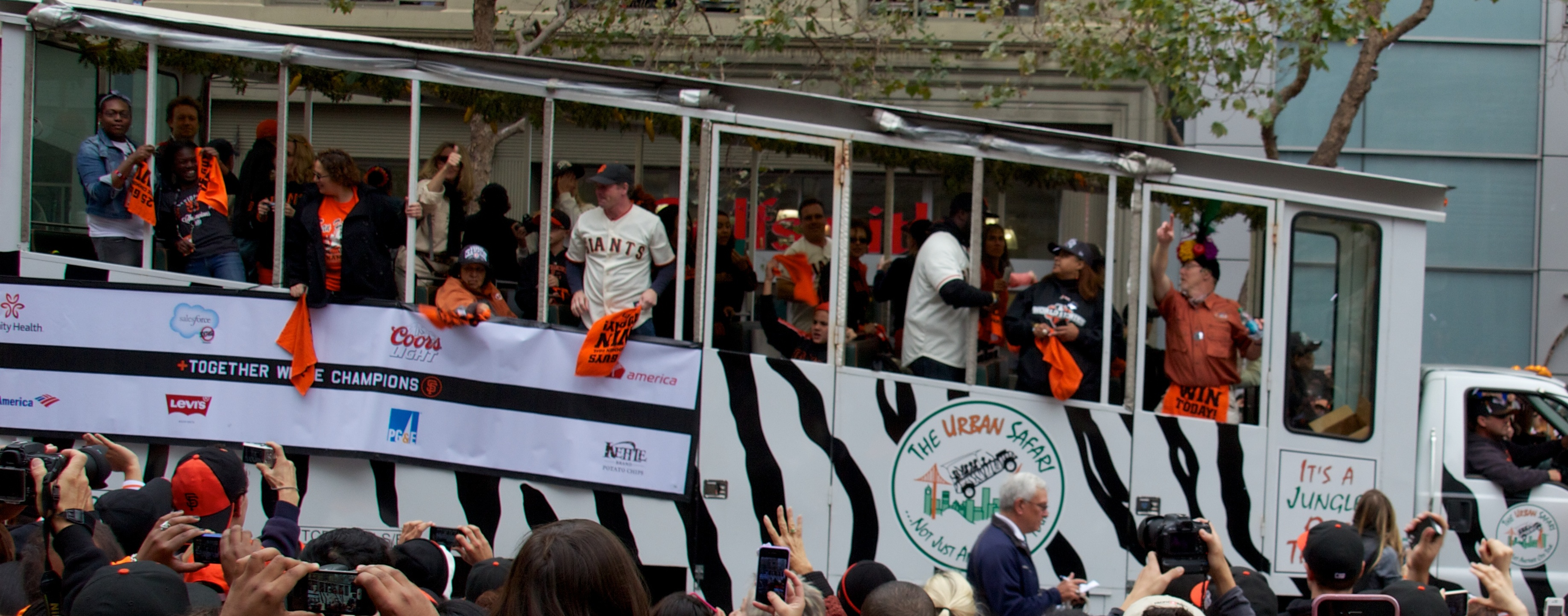 Parade, San Francisco